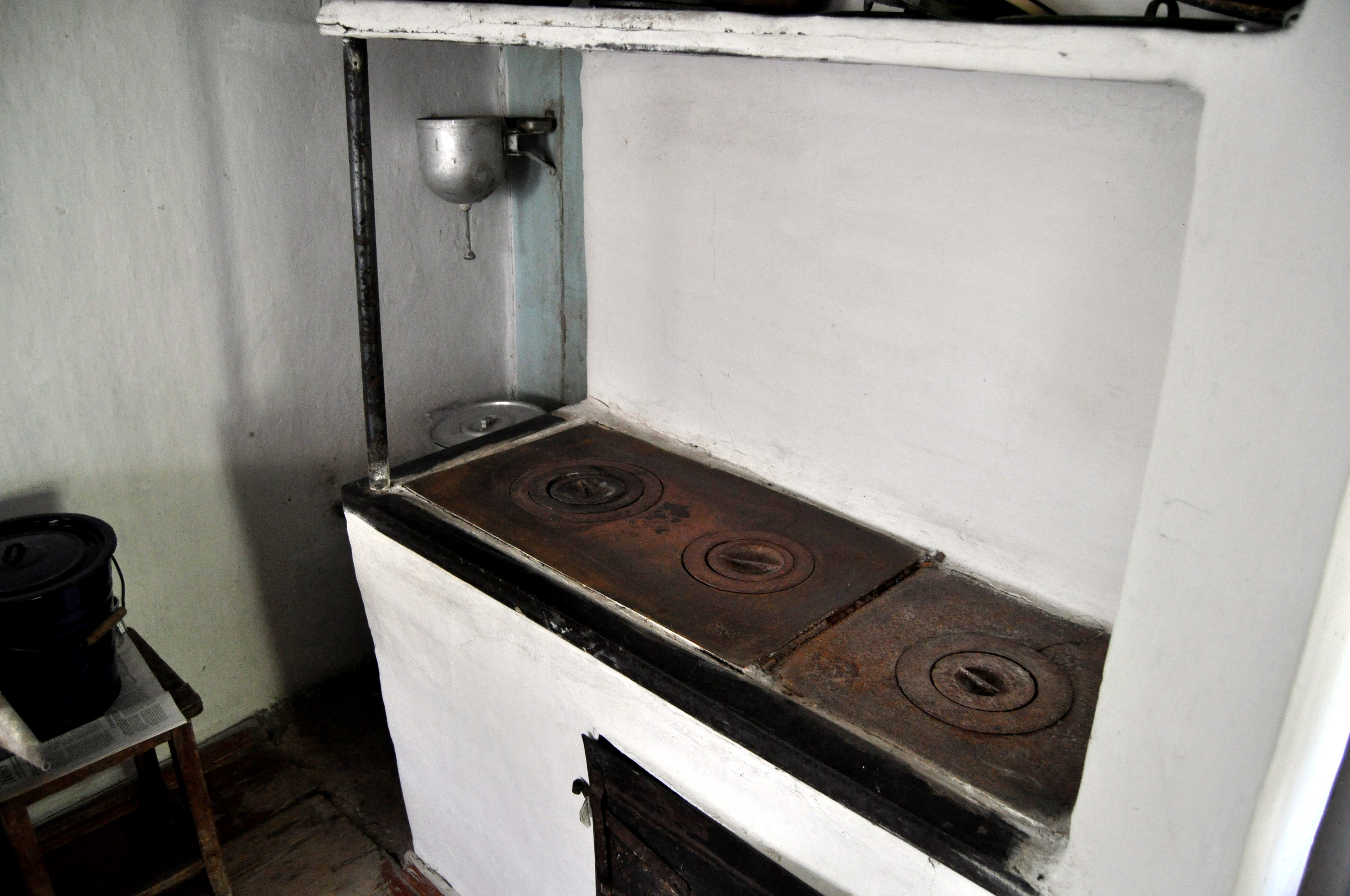 Russian oven. Zimovnikovsky district of Rostov region